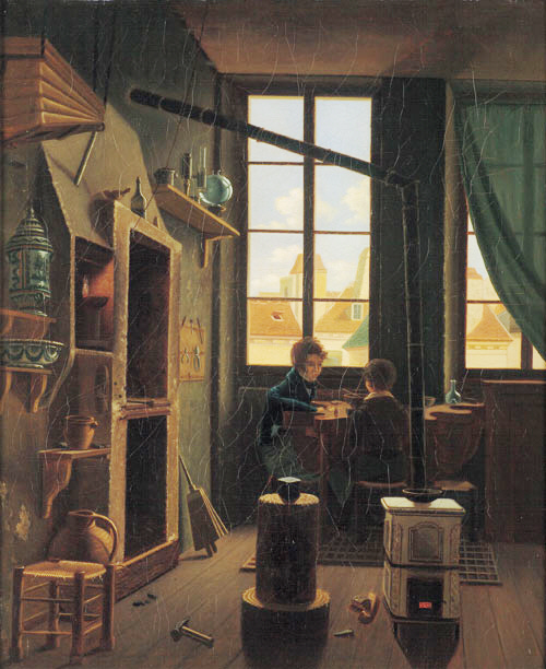 Goldsmith's workshop with two apprentices; oil on canvas; 46 x 38 cm